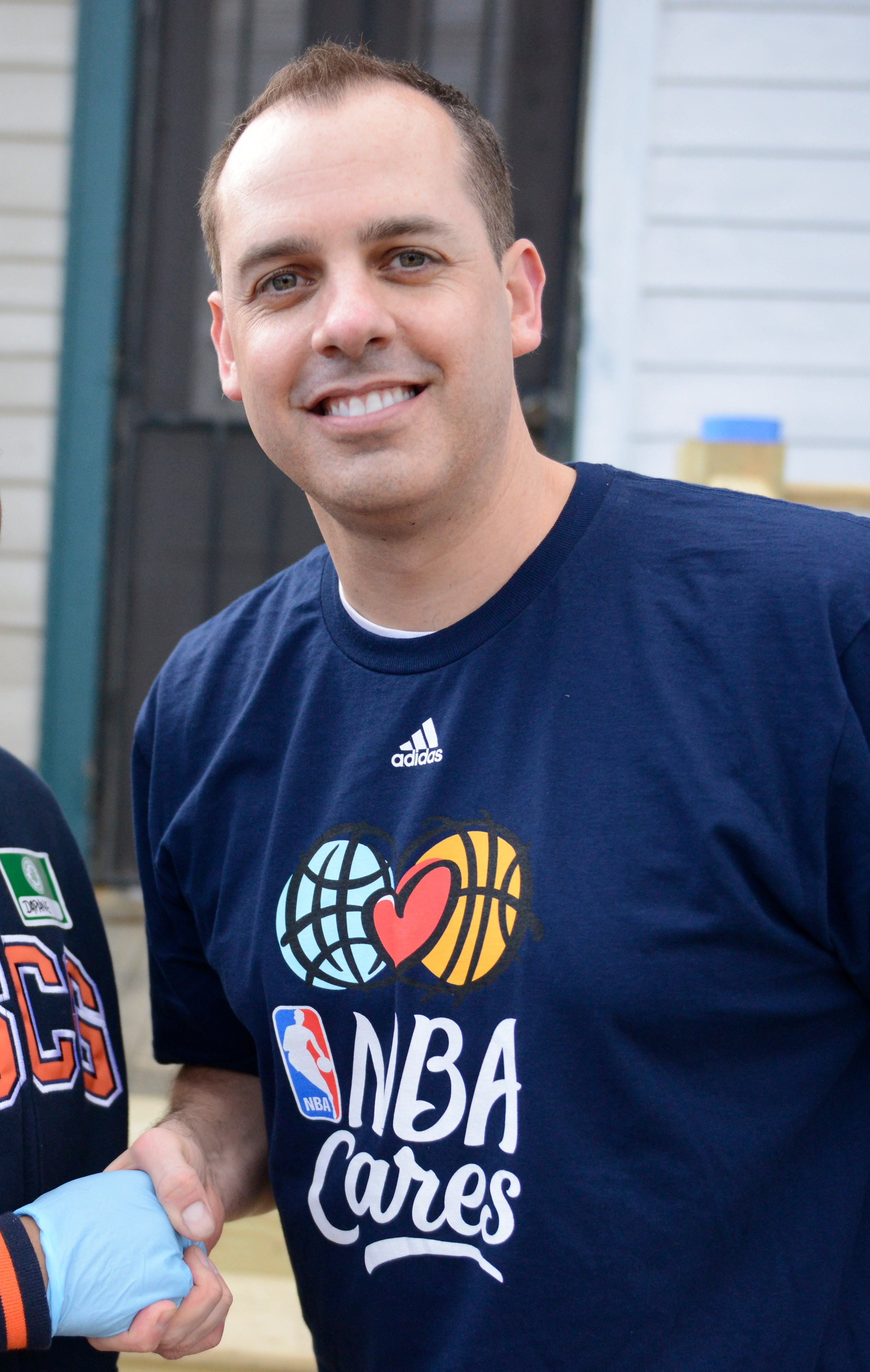 This file has been extracted from another file: Frank Vogel at NBA Cares charity event February 14 2014.jpg